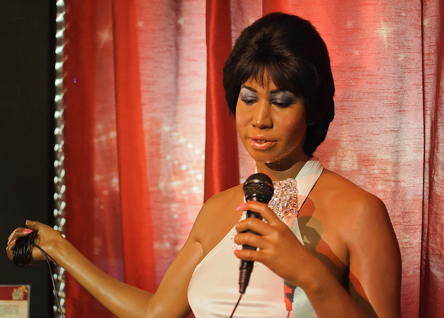 Aretha Franklin at Madame Tussaud's in NYC.